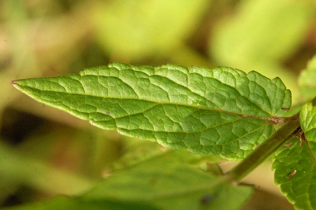 Scutellaria galericulata from Commanster, Belgian High Ardennes .